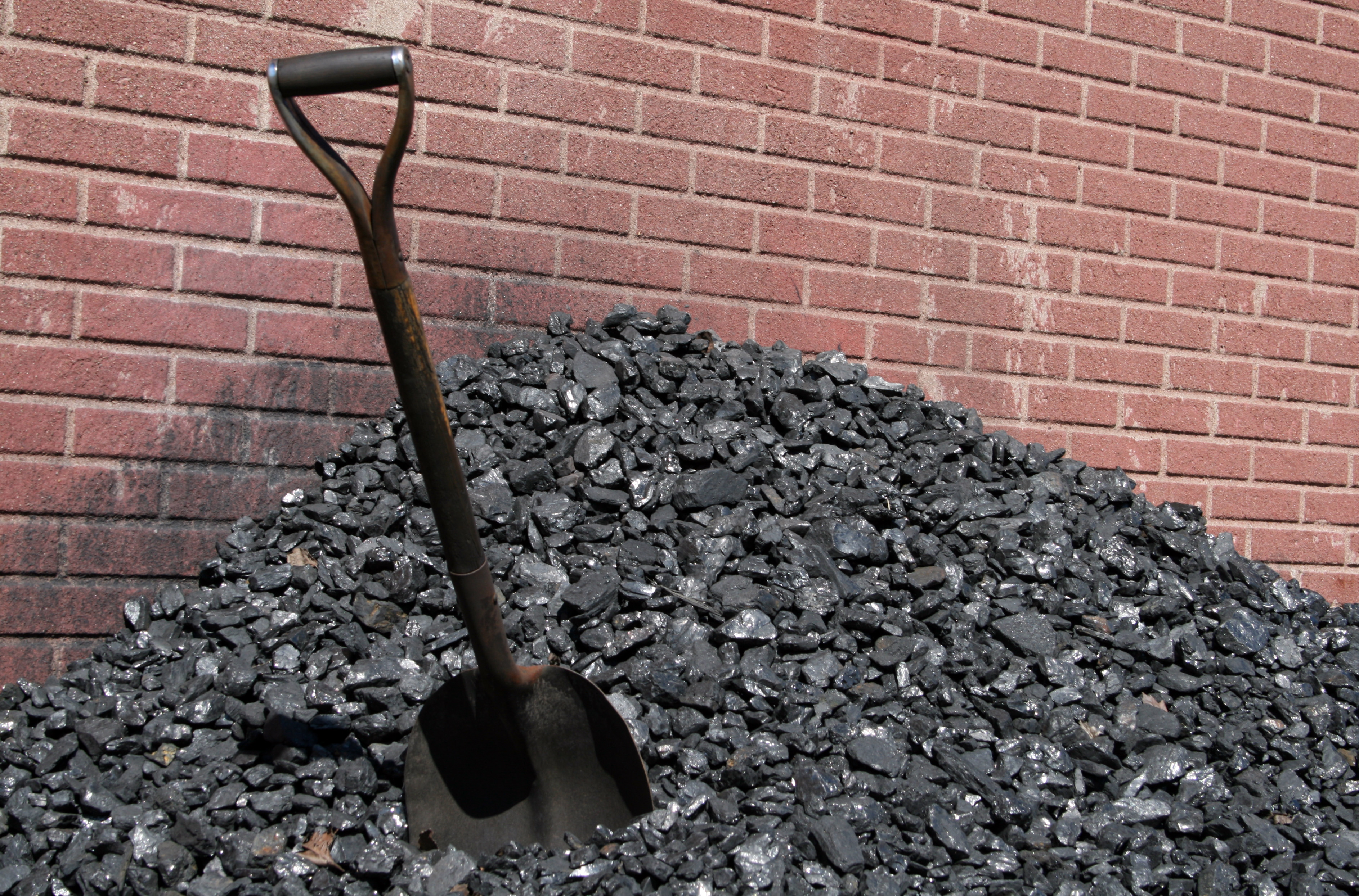 A pile of coal sits beside the engine house at the Strasburg Railroad.